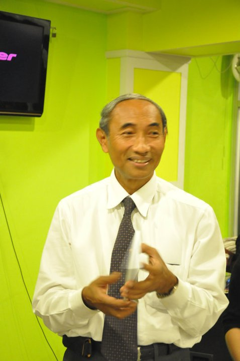 Somyot Chueathai, an associate professor at the Faculty of Law, Thamasat University, in a feast on 2011, January 22.